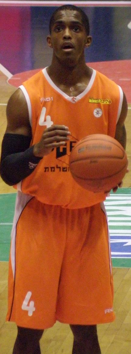 An American basketball player playing for Maccabi Rishon LeZion (2010)